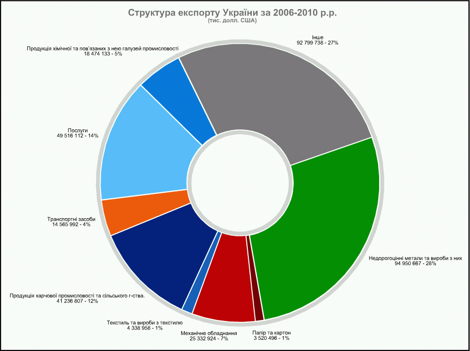 Structure export of Ukraine from 2006-2010 year